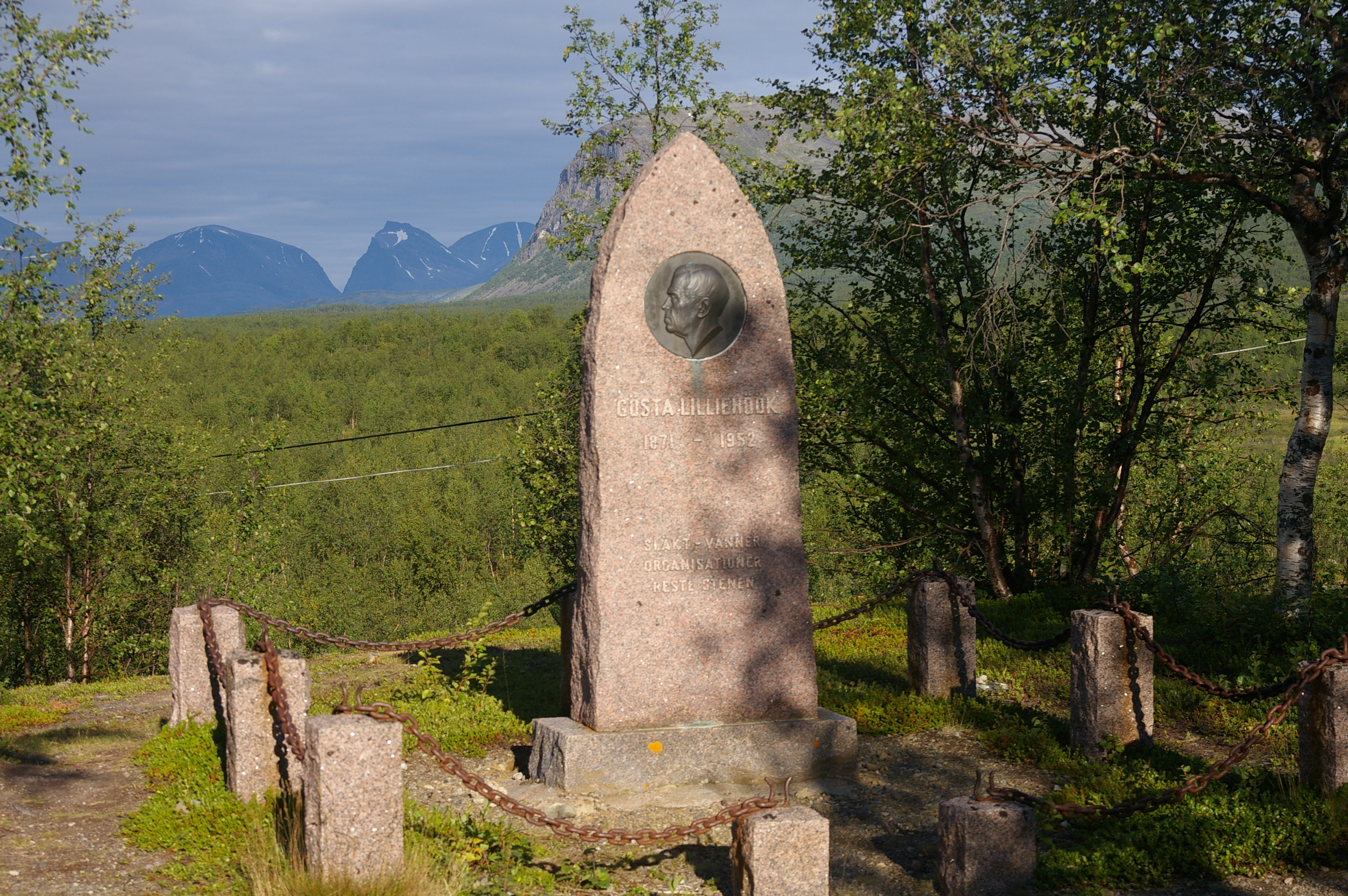 Gösta Lilliehöök Memorial in Nikkaluokta Sweden. In the background the mountains Tuolpagorni and Kebnekaise.